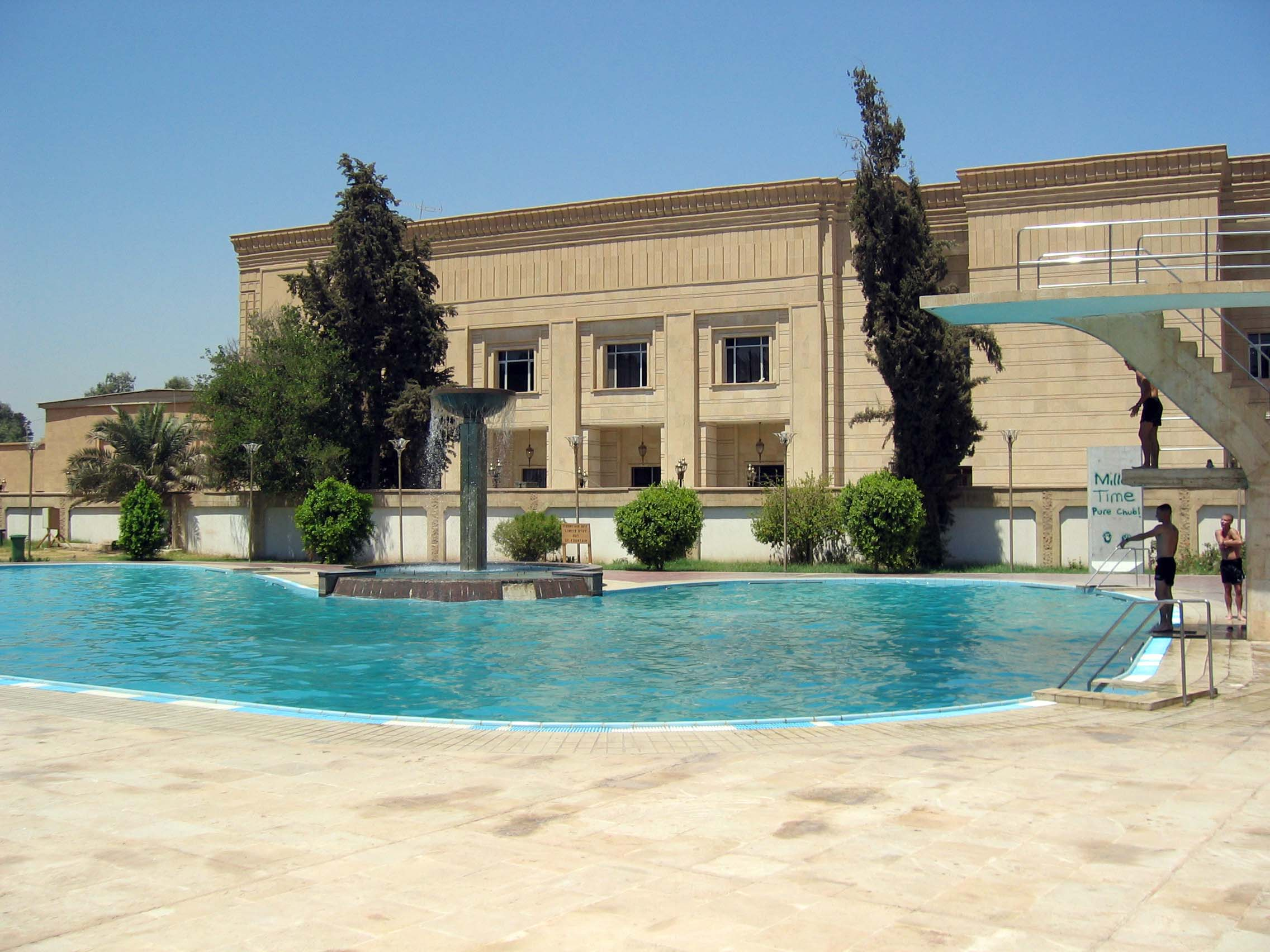 View of the rear of the Iraq Republican Palace detailing the pool area, in August, 2003. U.S. Marines in the right side of the photo can be seen enjoying the warm water amid temperatures approaching 120 degrees Fahrenheit.